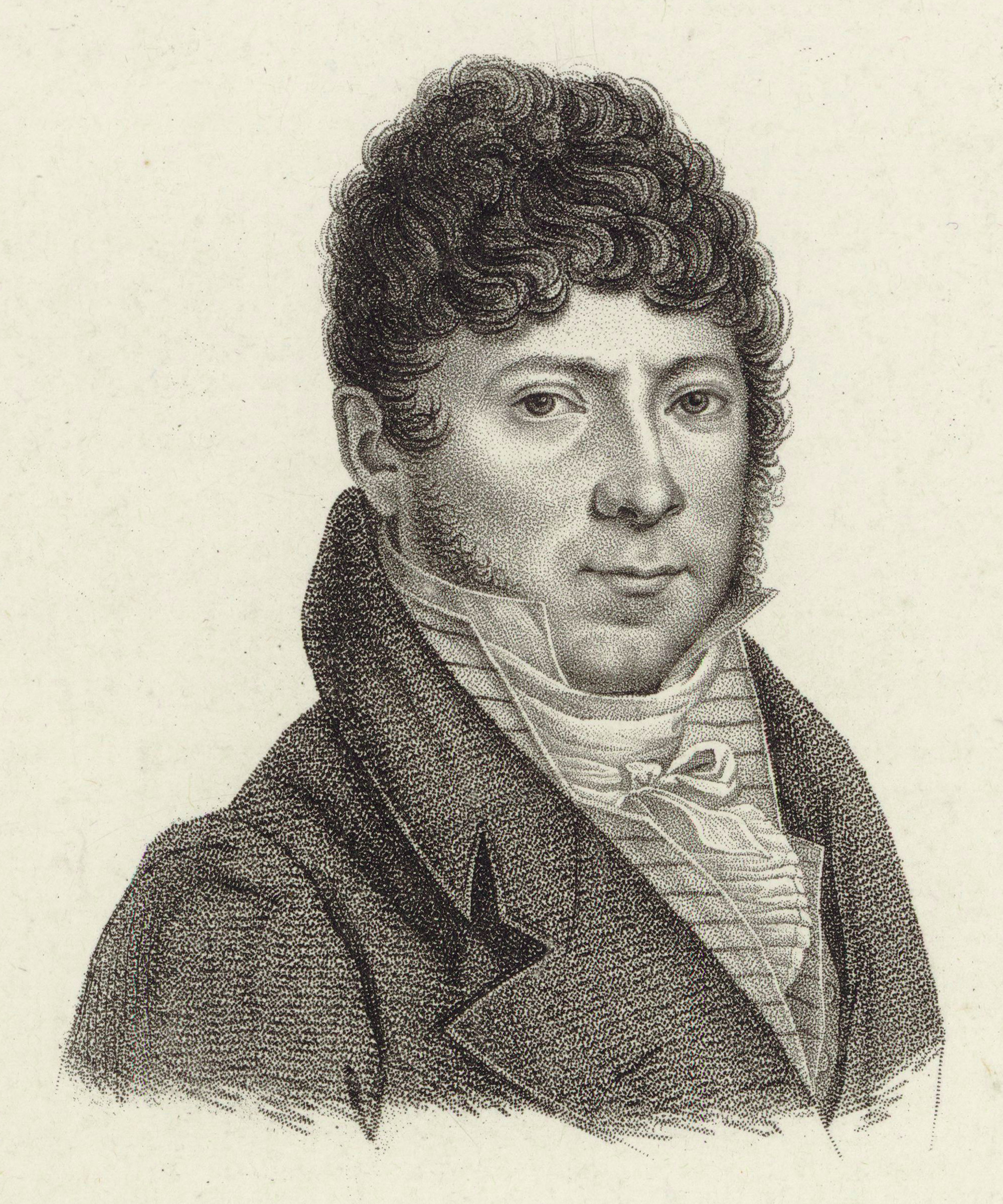 French violonist and composer Philippe Libon (1775–1838)